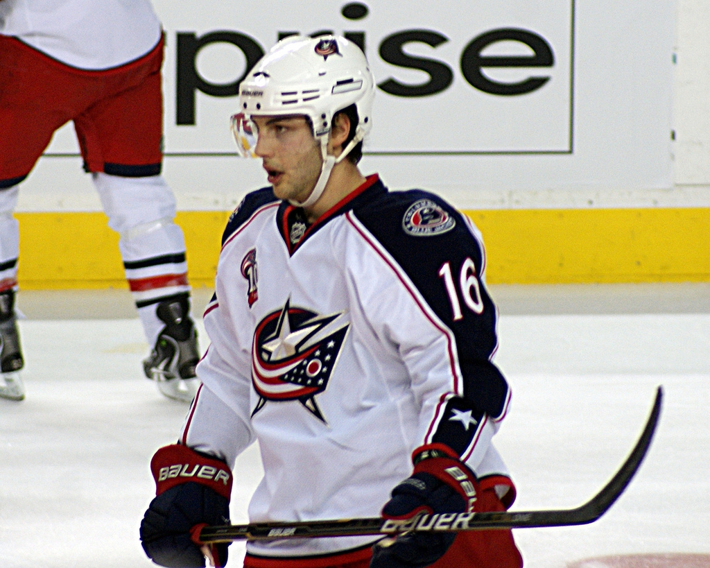 Derick Brassard, born September 22, 1987, in Hull, Quebec, is a Canadian hockey player currently with the Columbus Blue Jackets of the National Hockey League. This NHL game action photo was taken December 13, 2010 at the Scotiabank Saddledome in Calgary, Alberta.